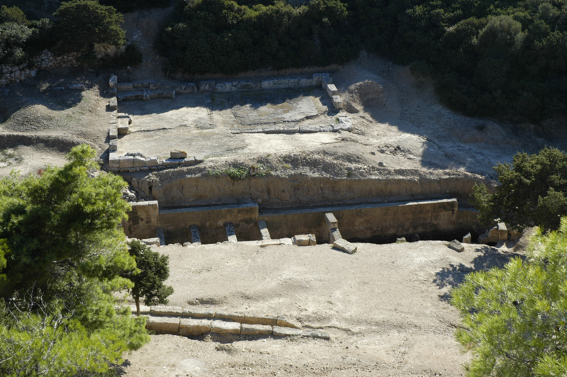 J. Matthew Harrington, personal digital image, November 16, 2006